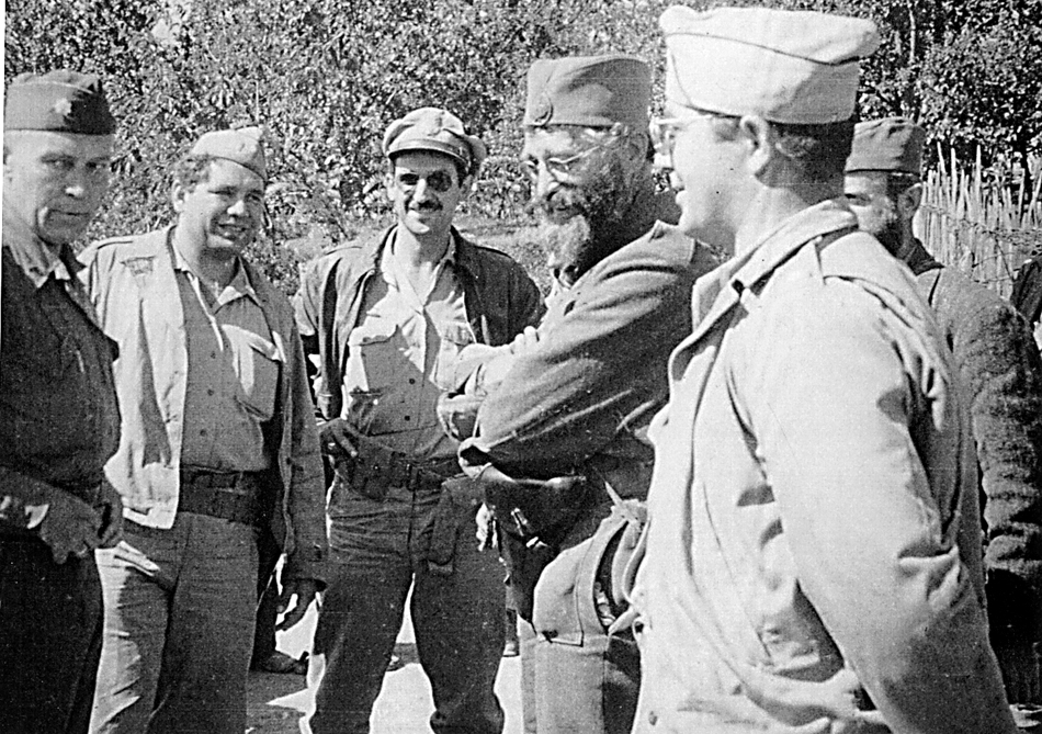 General Mihailovic with the members of the US military mission, Operation Halyard 1944. This version of the photograph is reversed left-right.